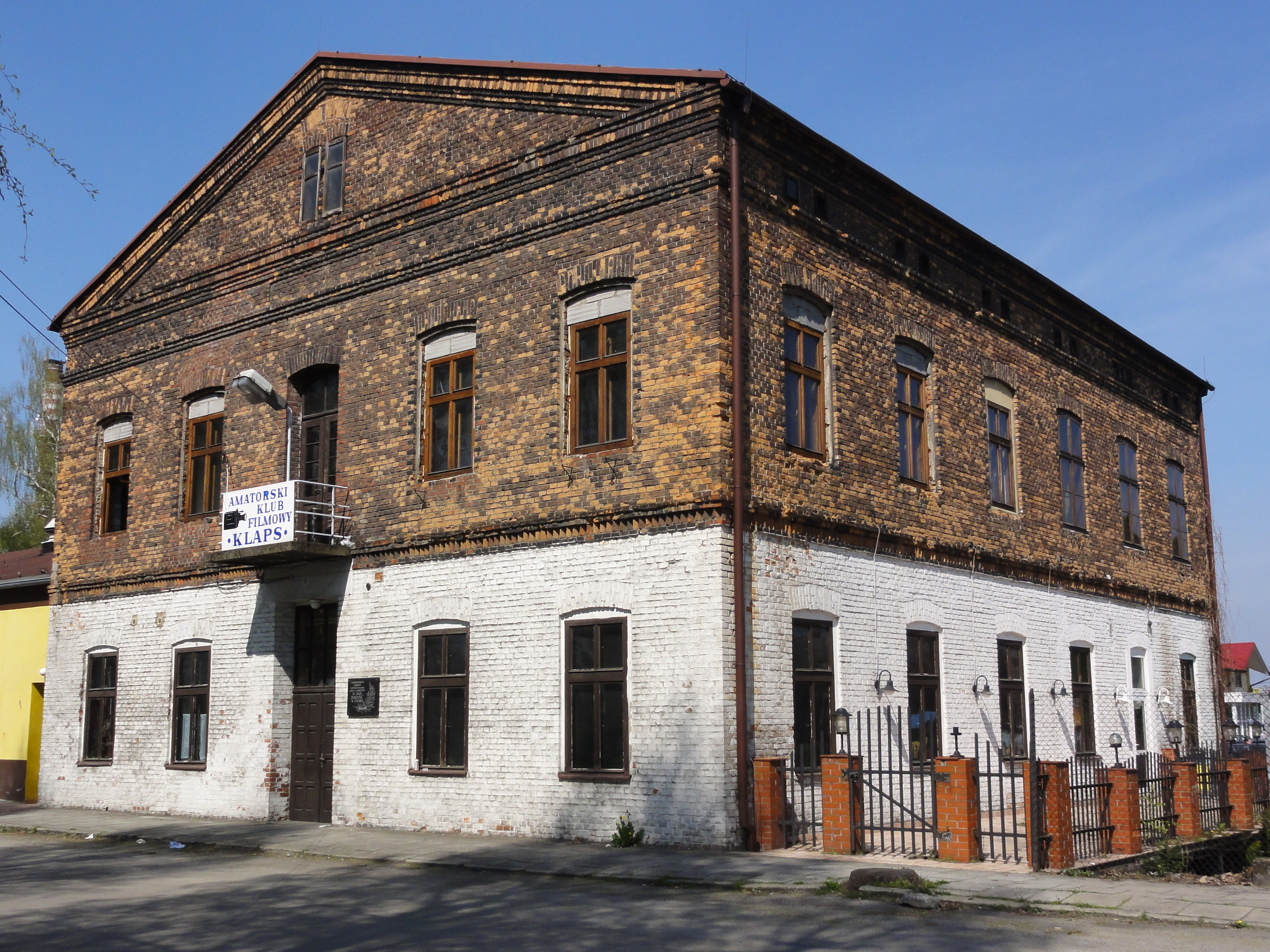 Amatour Filming Club "KLAPS" building